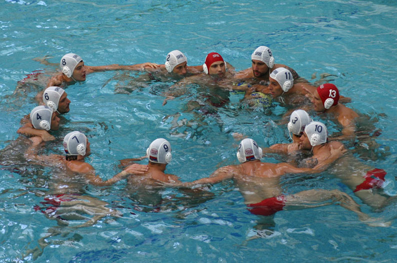 Serbia v Montenegro